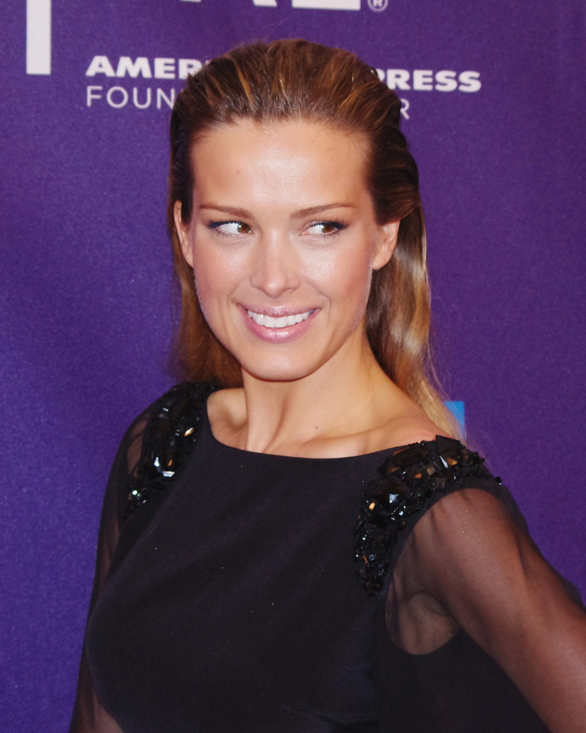 Petra Němcová at the 2012 Tribeca Film Festival